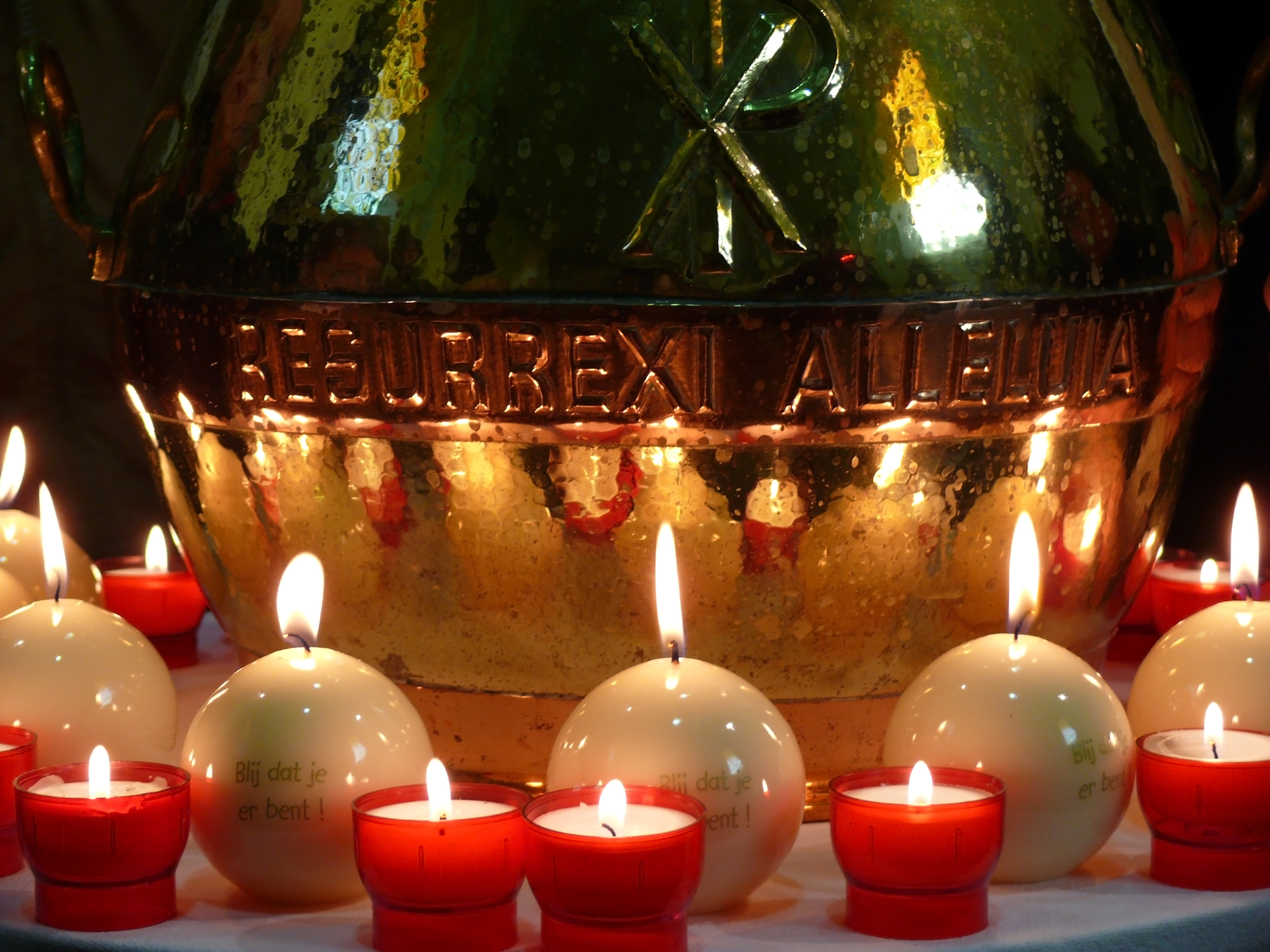 Candles at a baptism in a Roman Catholic Church.